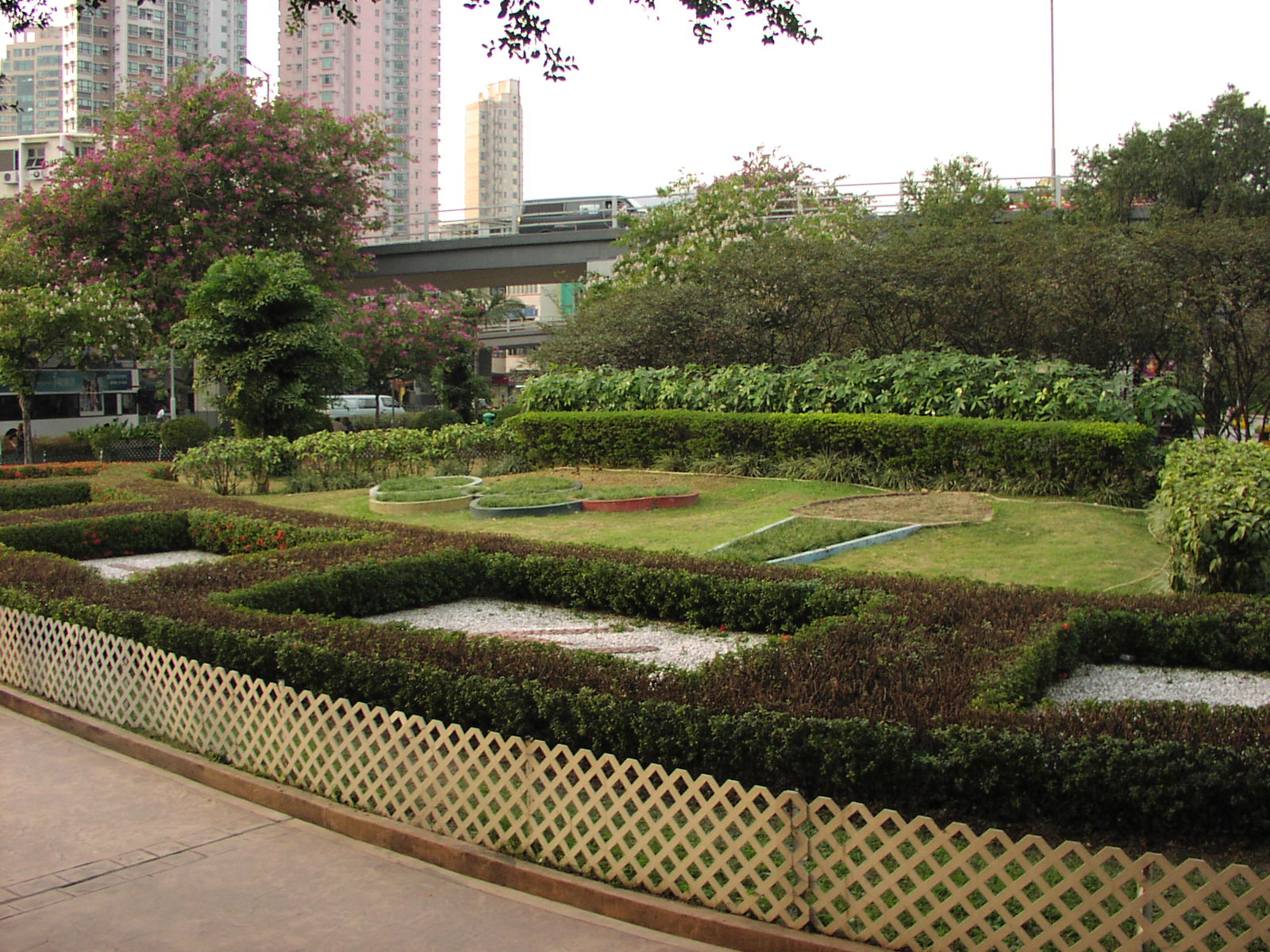 Olympic Garden